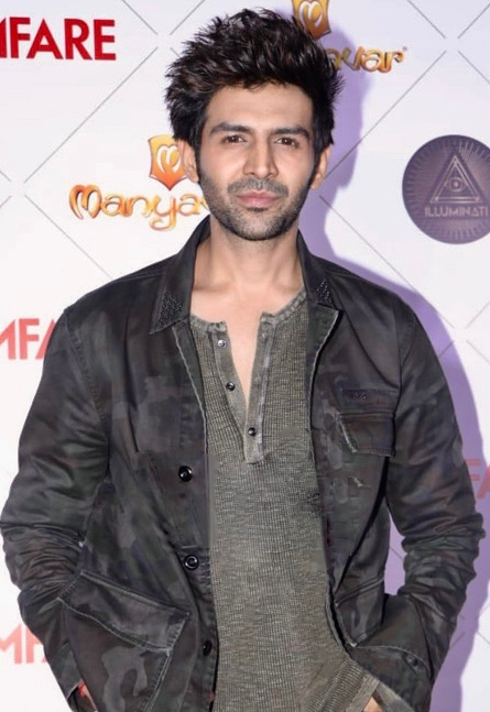 Kartik Aaryan unveils the November 2019 issue of Filmfare